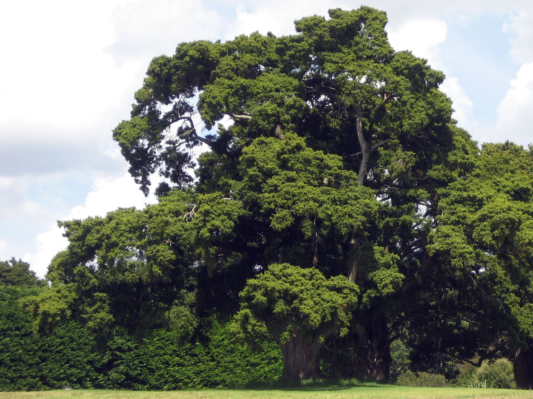 Tōtara, Podocarpus totara, Auckland, New Zealand